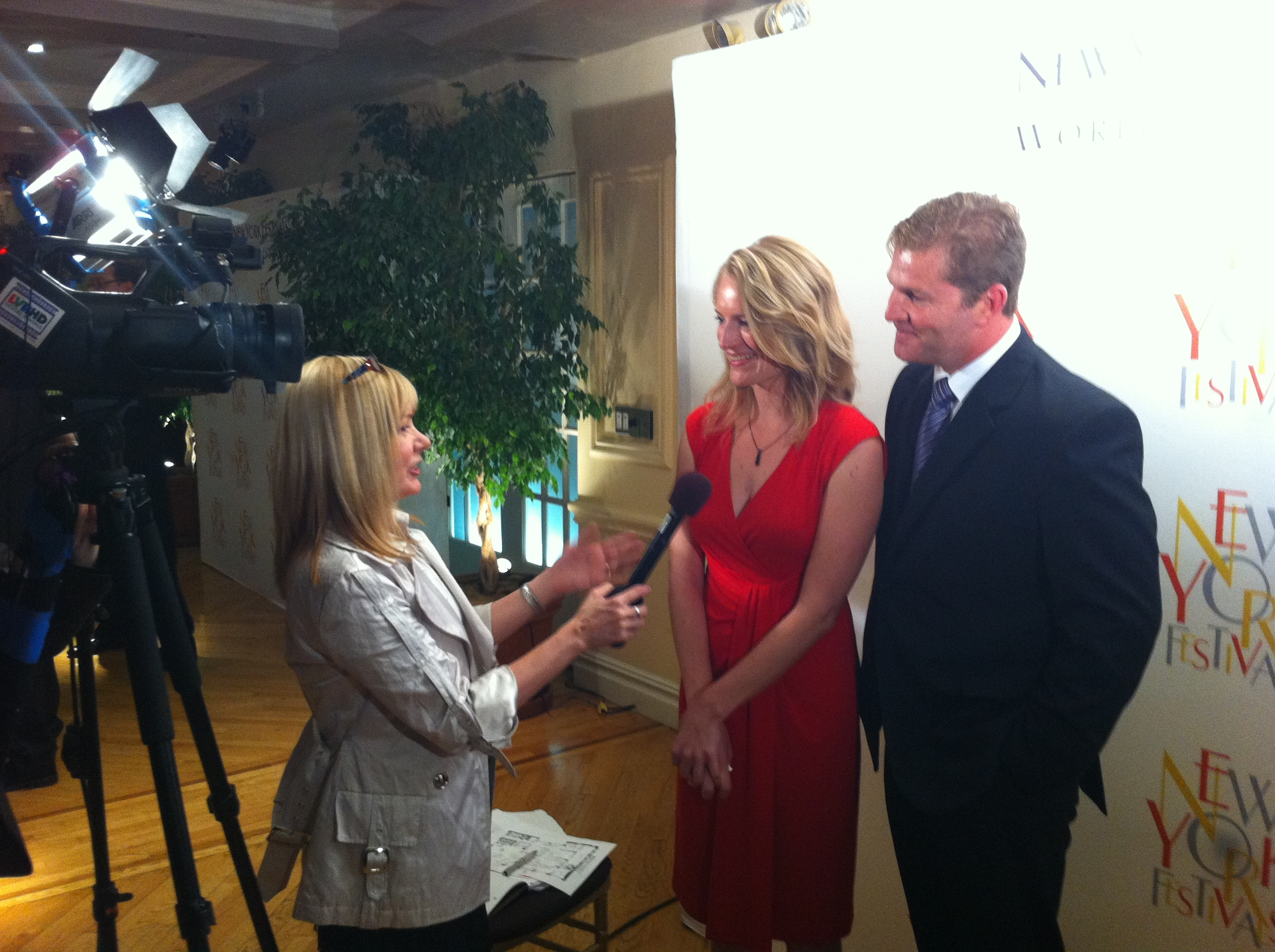 Aaron Kearney and wife Karen Shrosbery being interviewed at New York Radio Awards